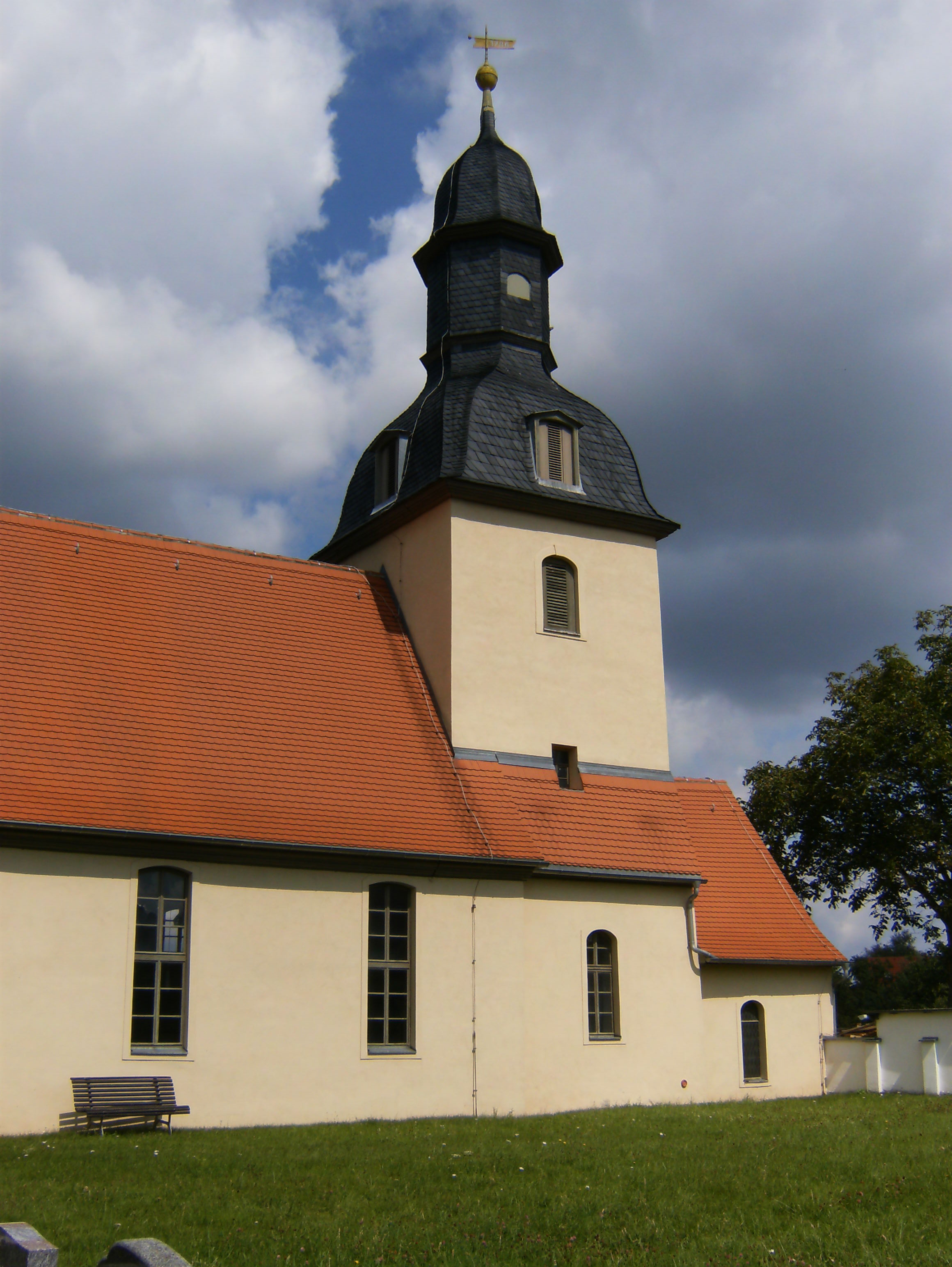 Gera Dürrenebersdorf, village church